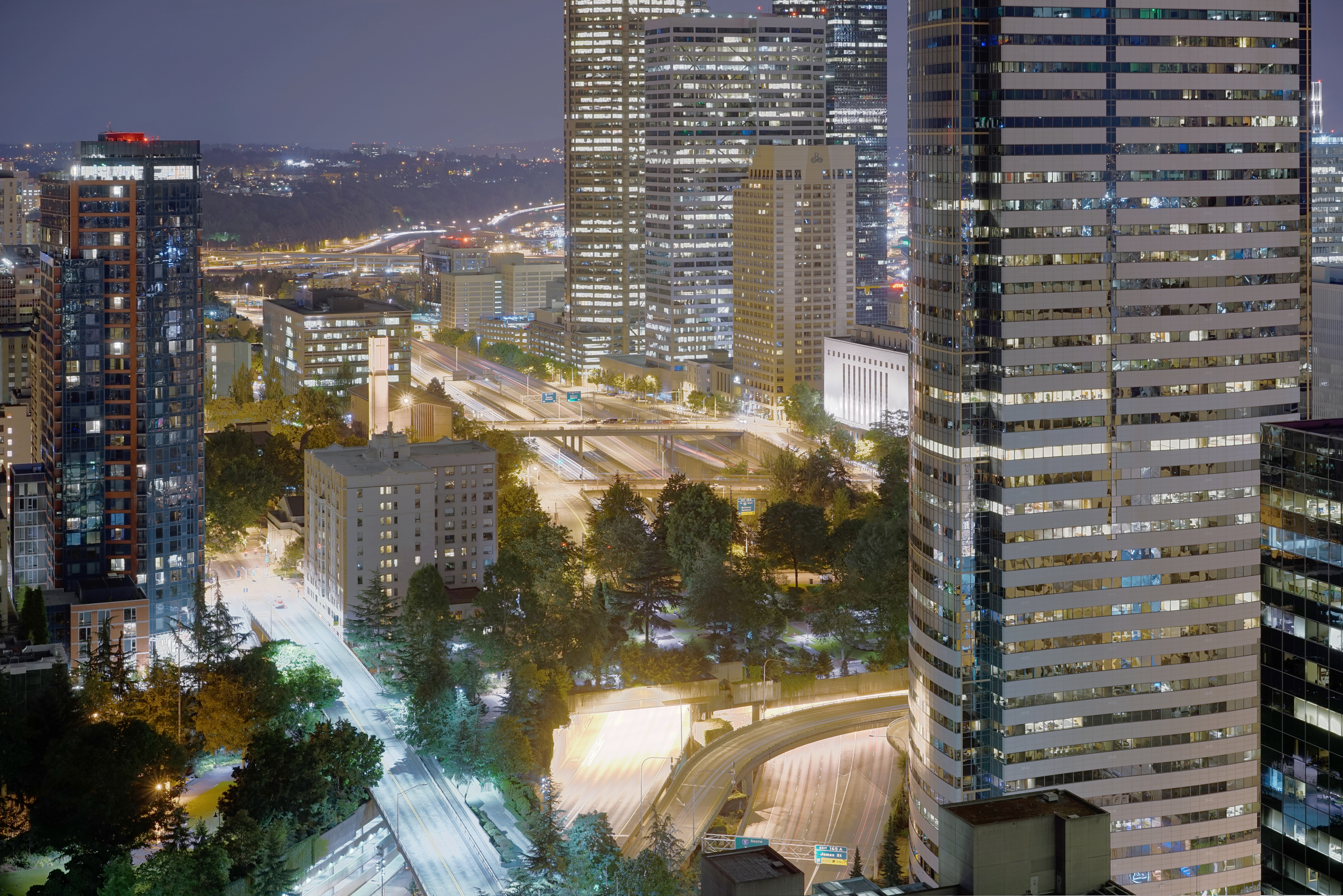 Freeway Park, a park in Seattle which is built over the Interstate 5.